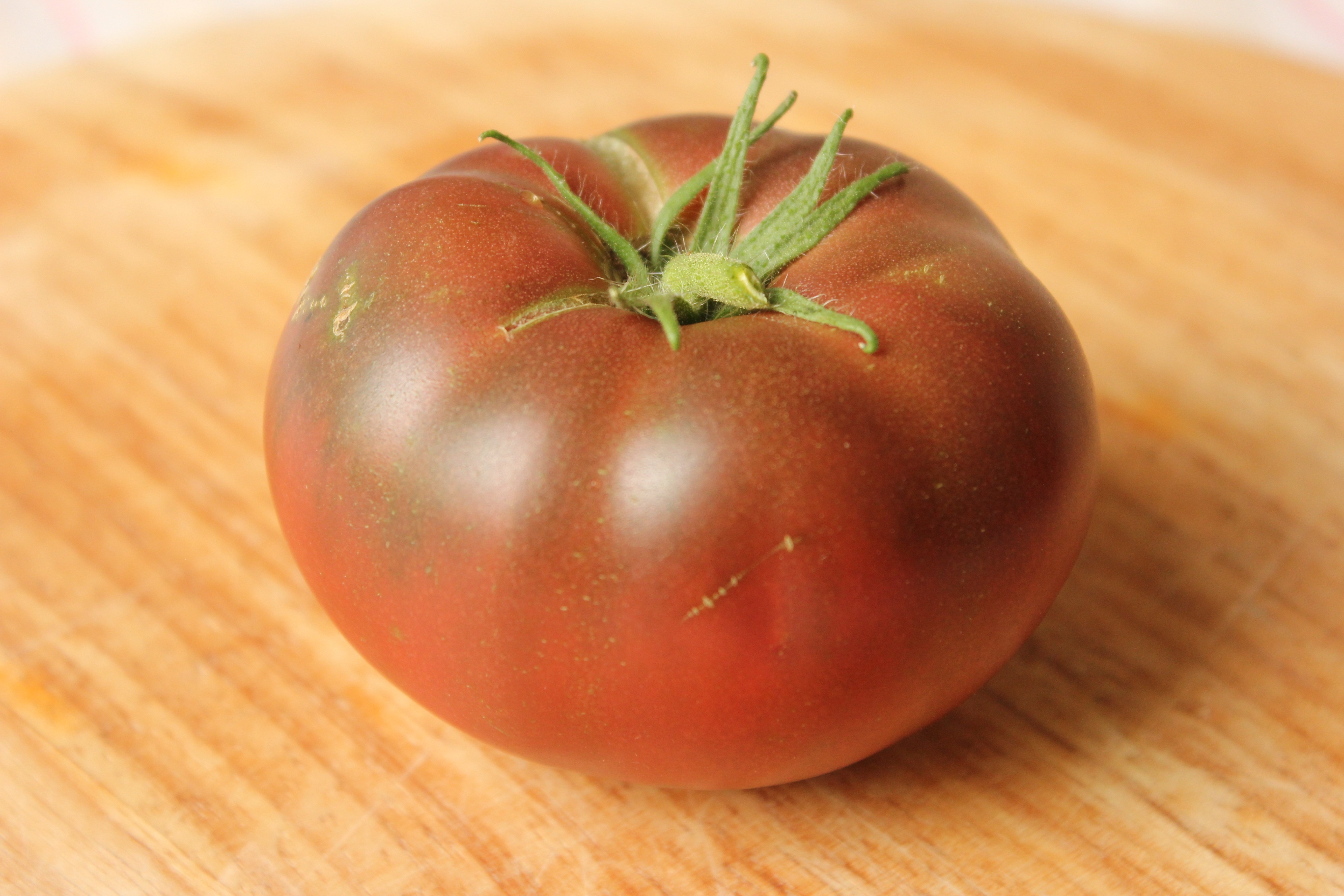 Harvested Black Krim heirloom tomato on a wooden cutting board. As is typical for this type of tomato, the skin is darker on top, with some minor cracking at the stem.